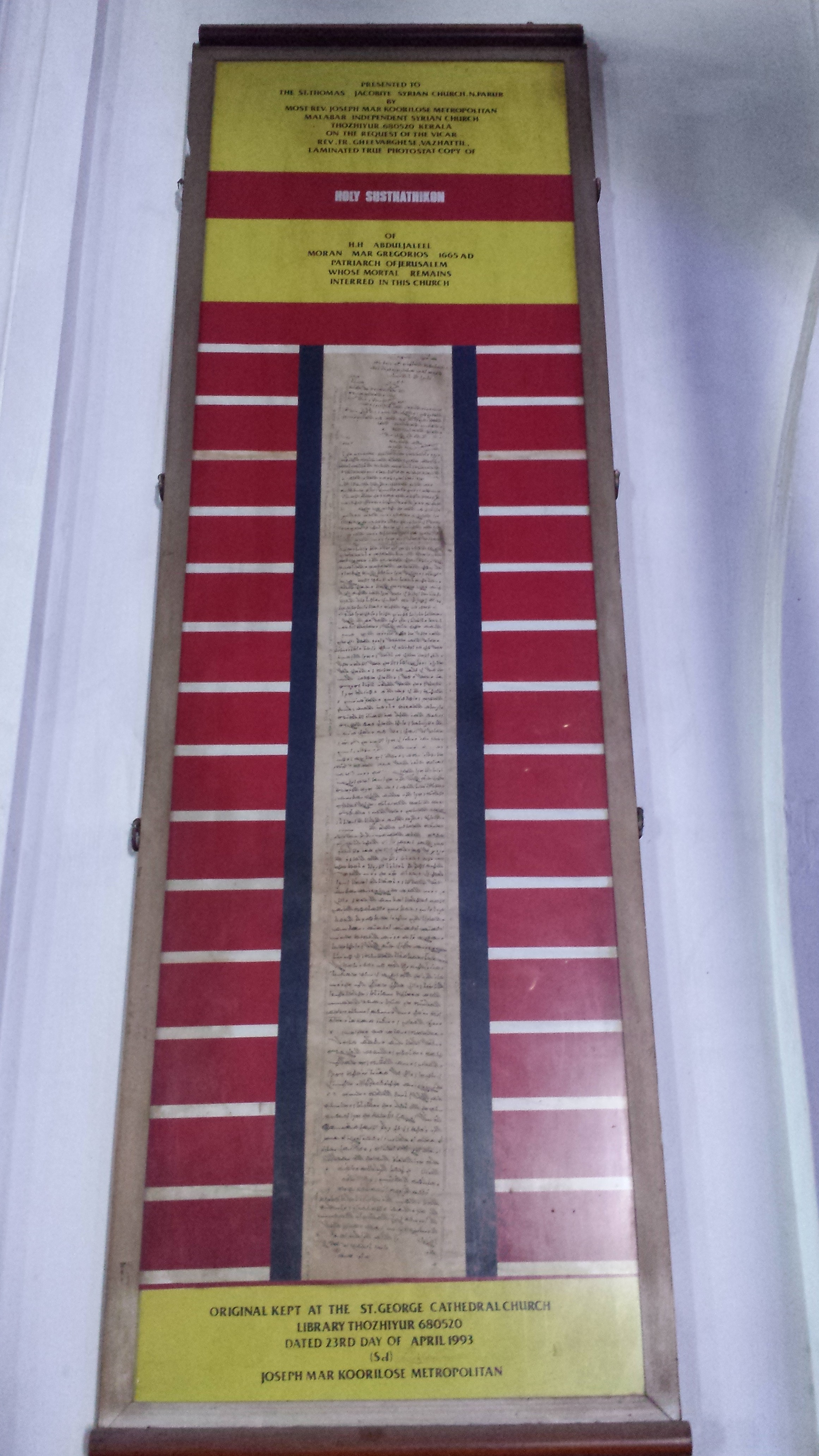 Susthathikon of Mar Gregorios Abdul Jaleel, the first Antiochian Bishop to reach Malankara.